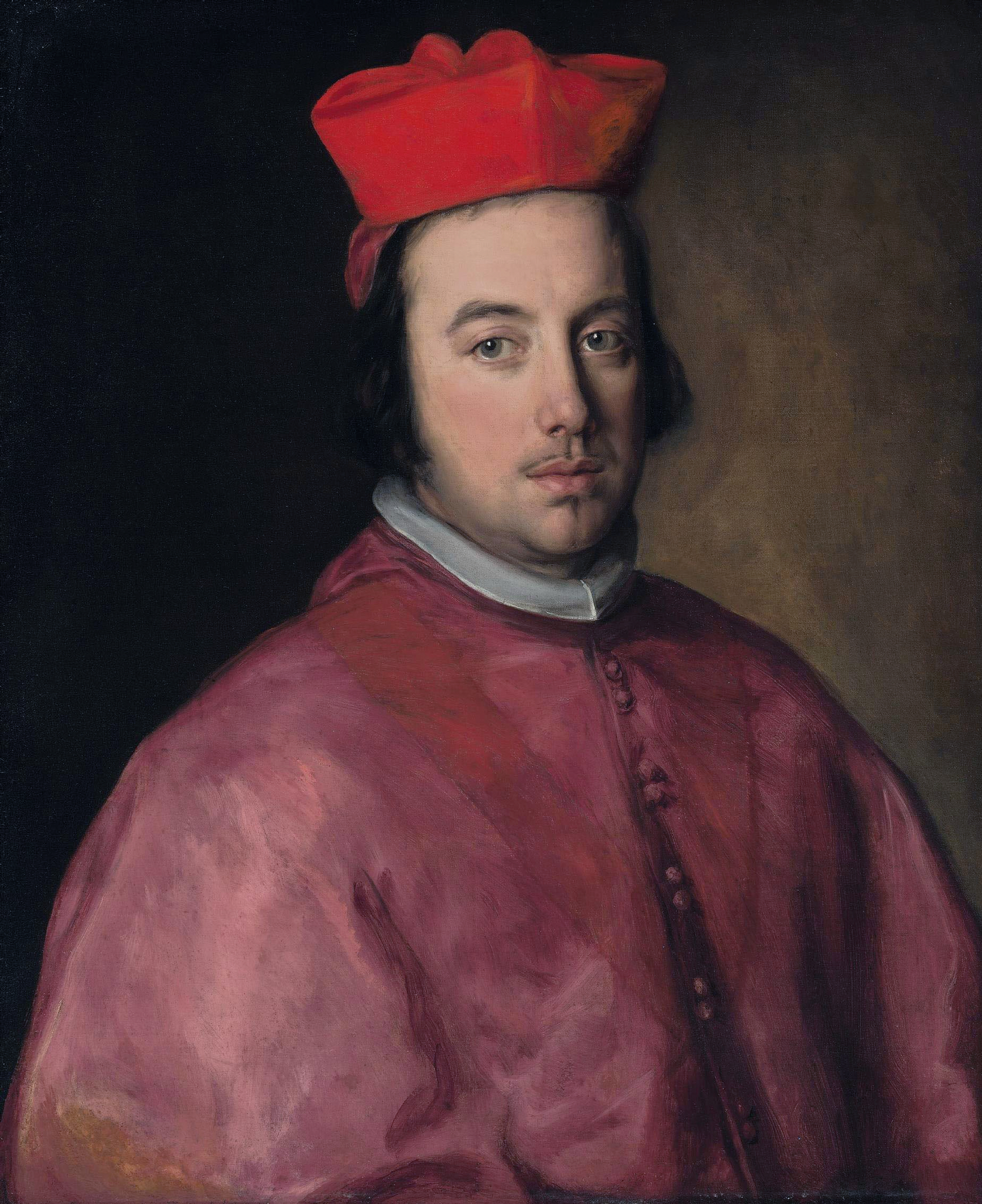 (See identification problem)